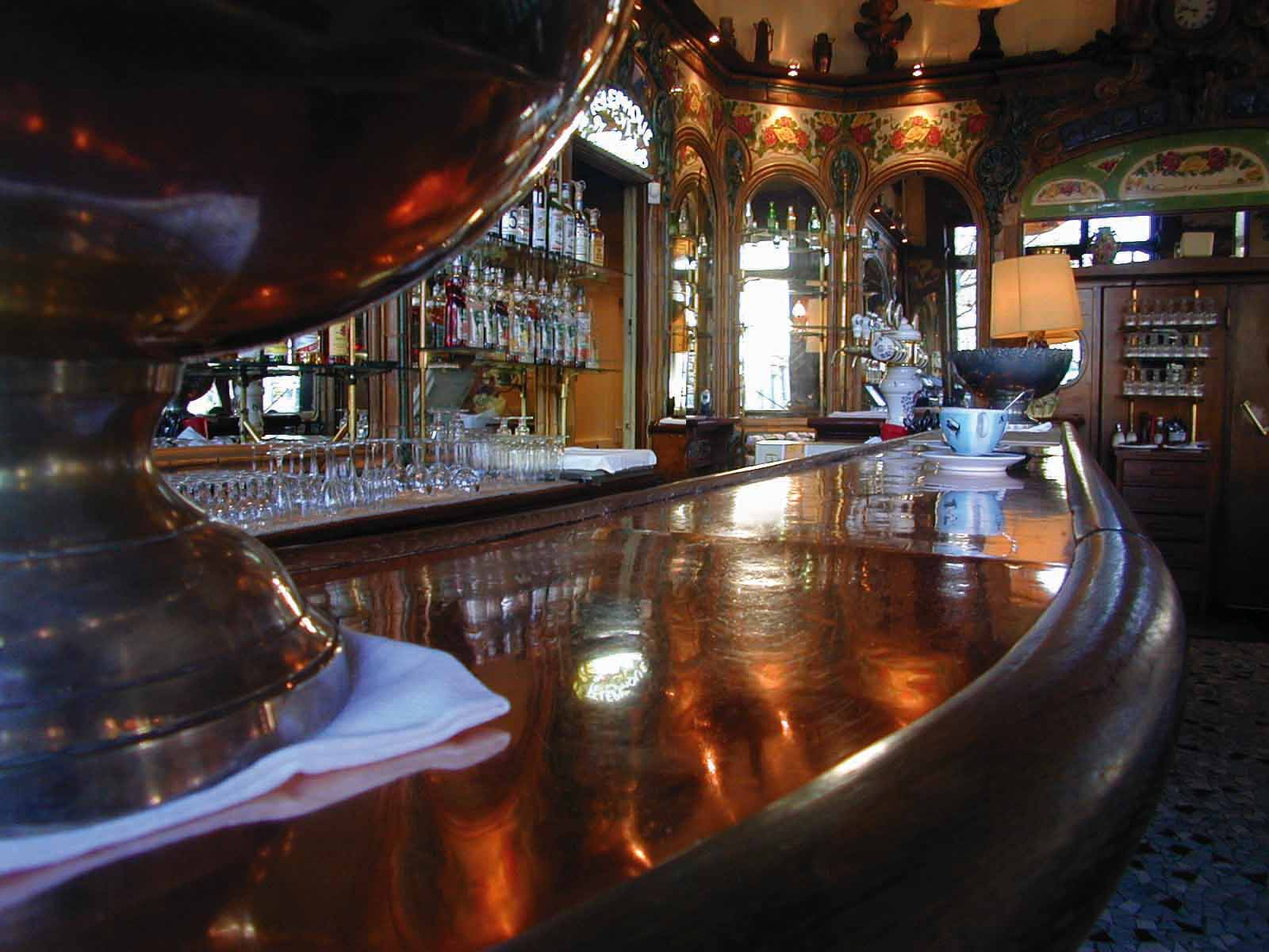 A bar in Lyon, France.